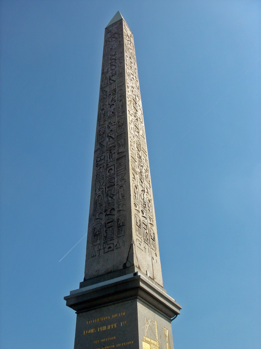 Obélisque de Louxor at Place de la Concorde, Paris, France